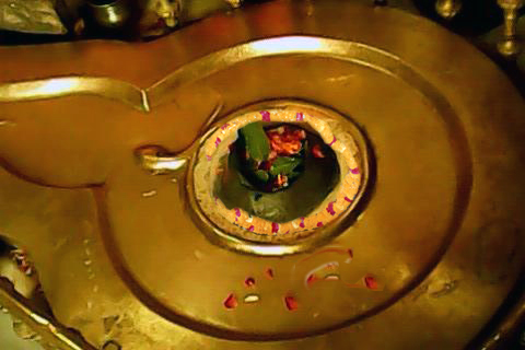 Shivling of Daksheshwar Mahadev Temple